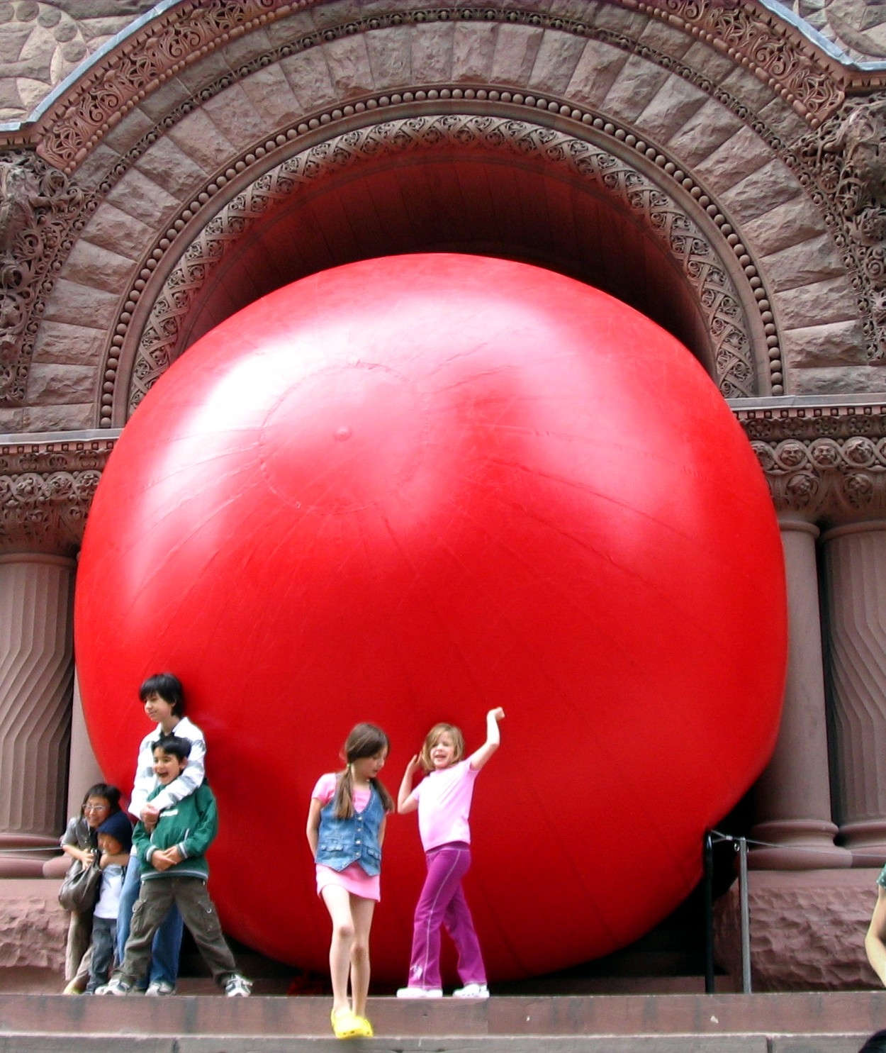 This giant red ball has been moving around Toronto as part of the Luminato arts festival, attracting swarms of photographers everywhere it goes. Photographed at the entrance of Old City Hall, Toronto, Canada.